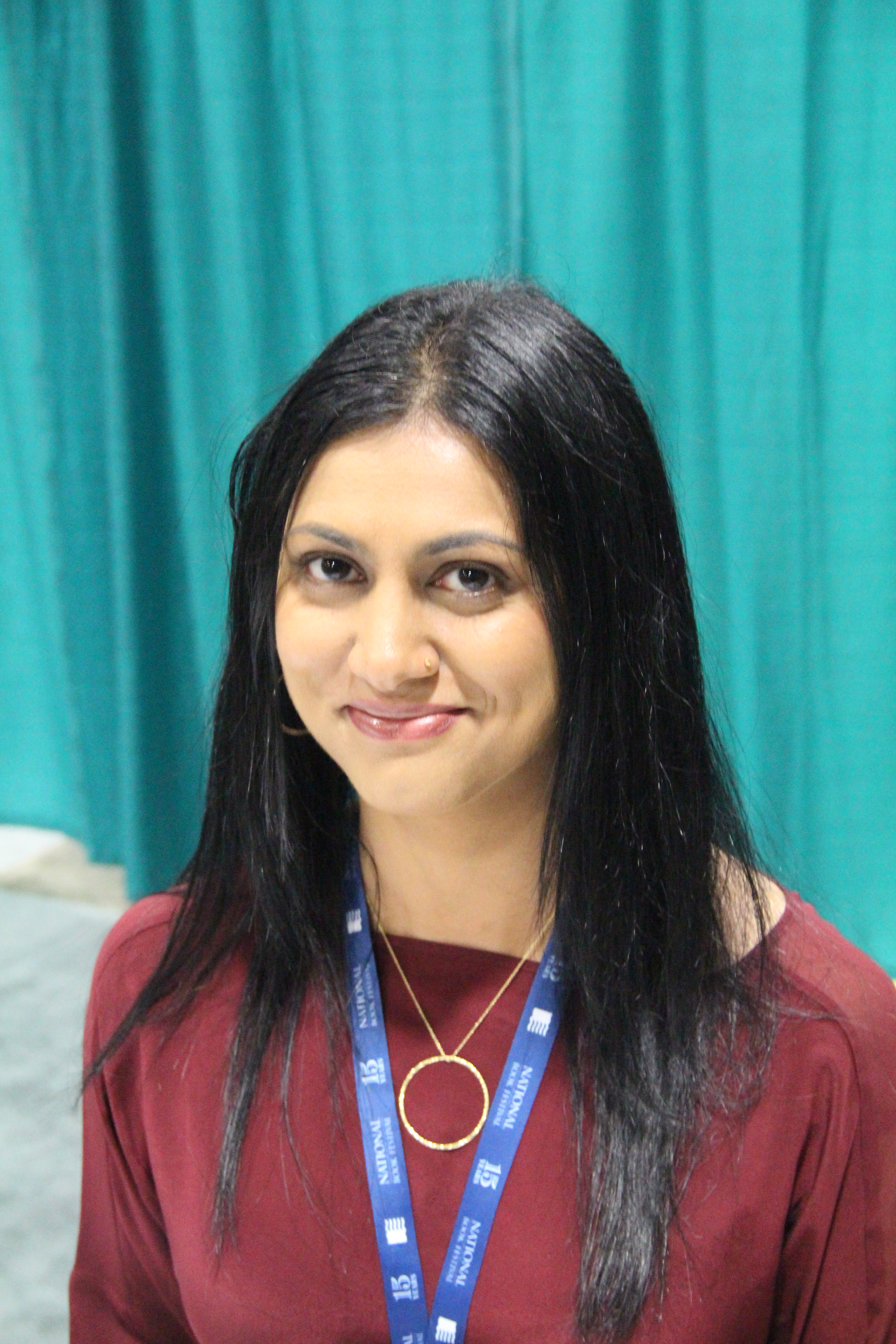 2015 Library of Congress National Book Festival September 5, 2015 Washington, DC